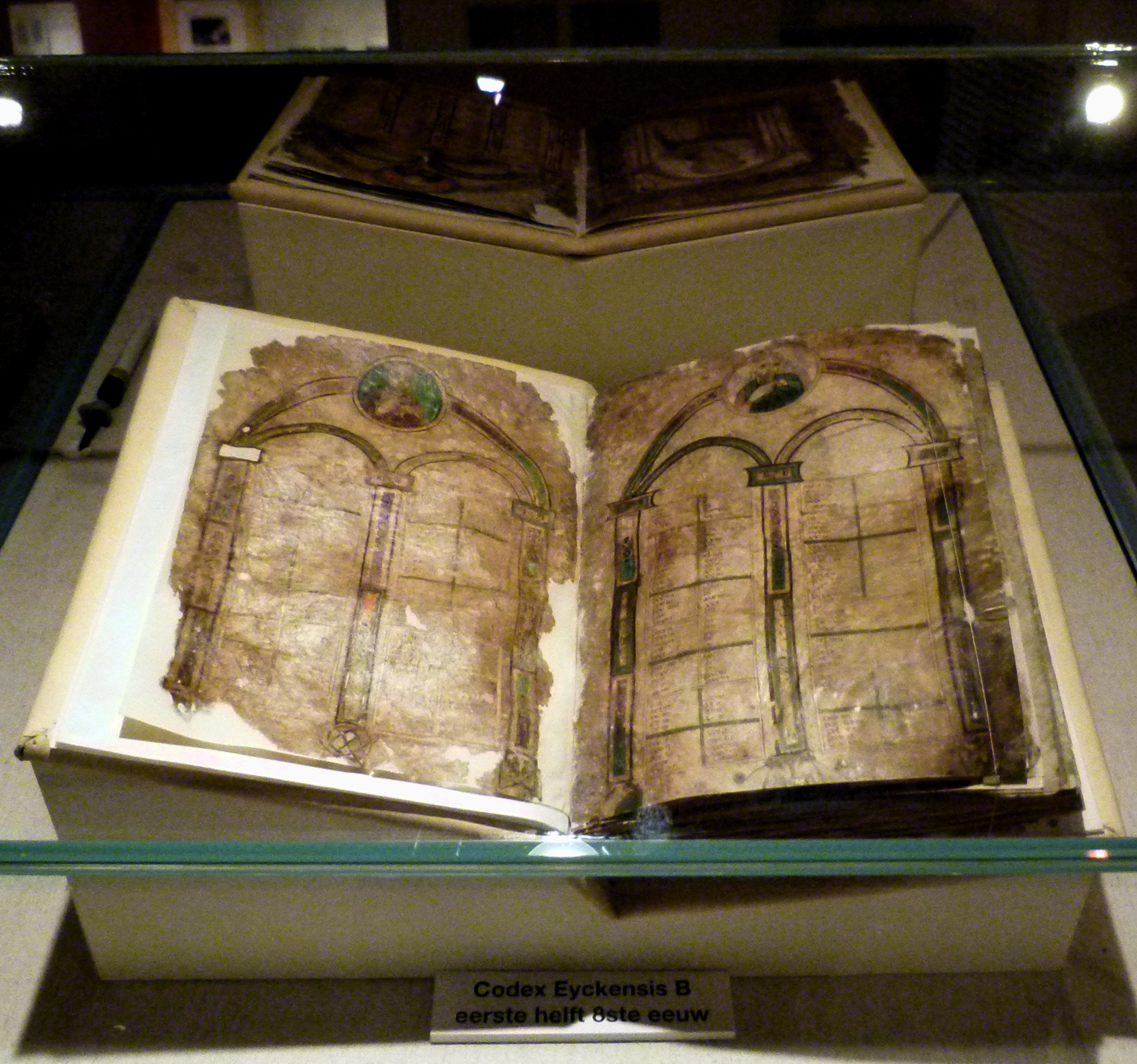 Codex Eyckensis, 8th-century manuscript of the Gospels, formerly in the library of Aldeneik Abbey, now in the church treasure of Saint Catherine's Church, Maaseik, Belgium